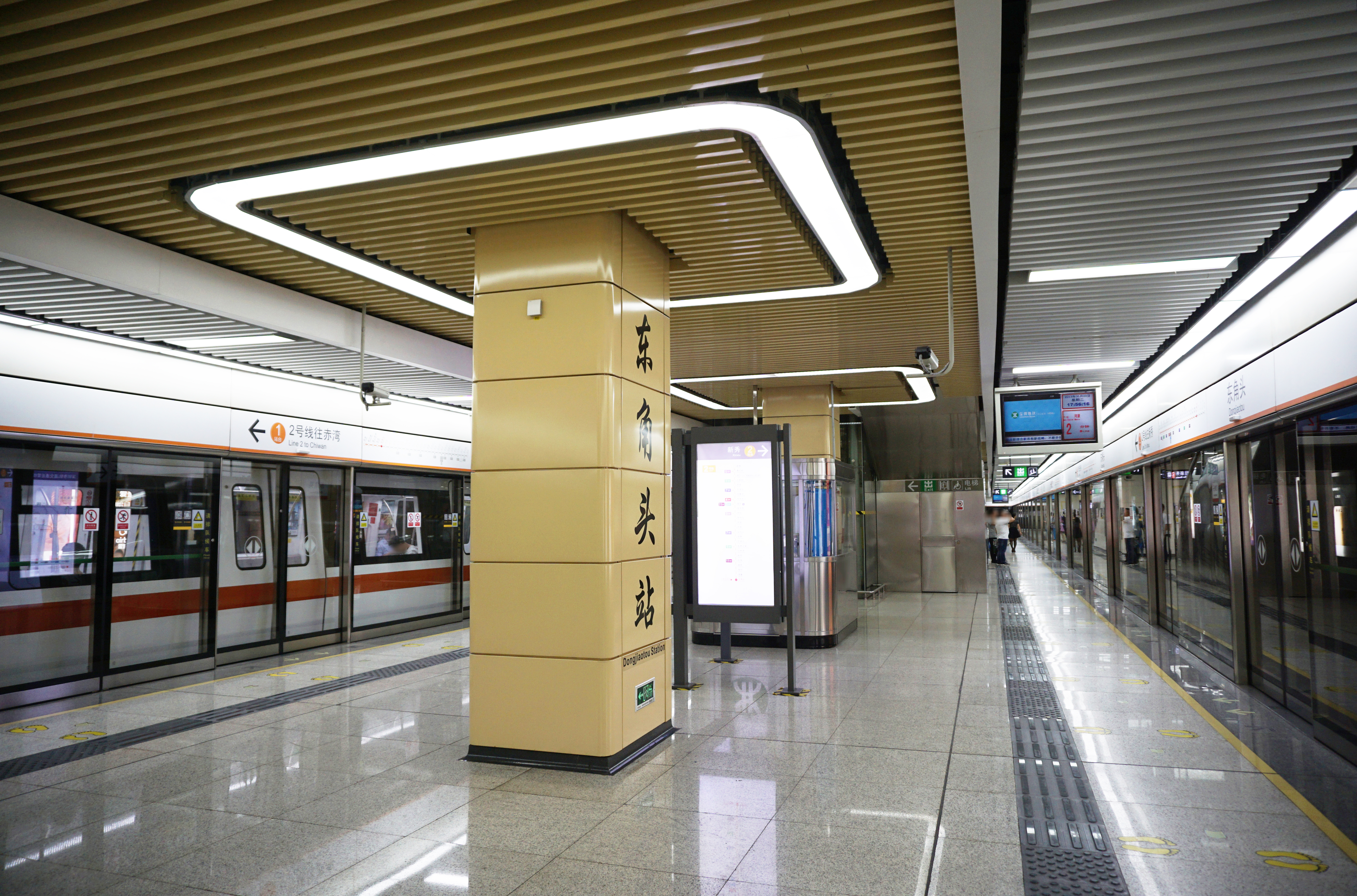 Dongjiaotou Station in Shekou, Shenzhen.